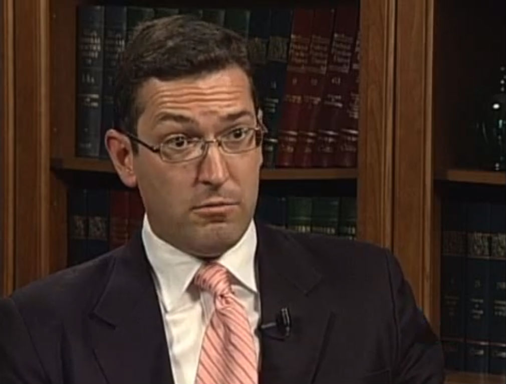 Benedict Rogers, British human rights activist and journalist. Screenshot from a VOA interview.